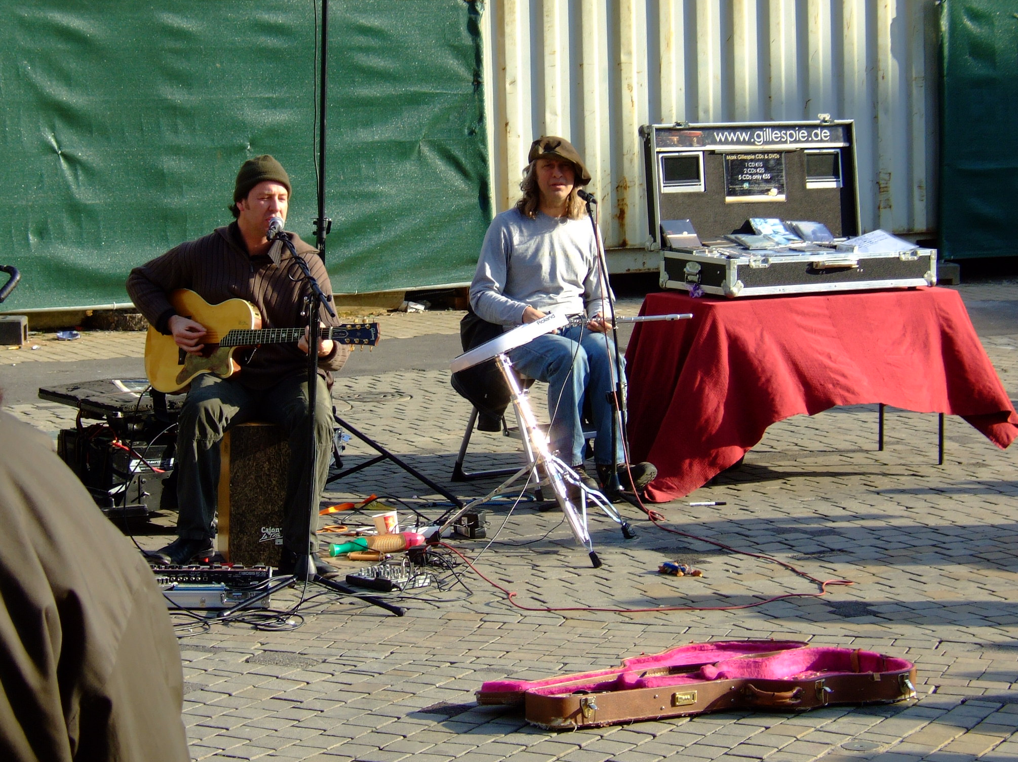 Mark Gillespie (left) and Tom (Thomas) Drost, Kiliansplatz Heilbronn/Germany